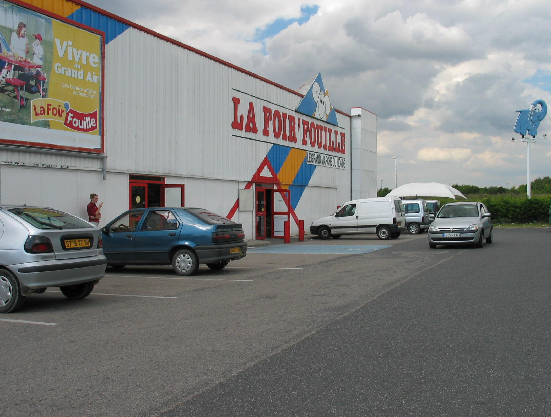 Amiens, tourist spot: la Foir'fouille